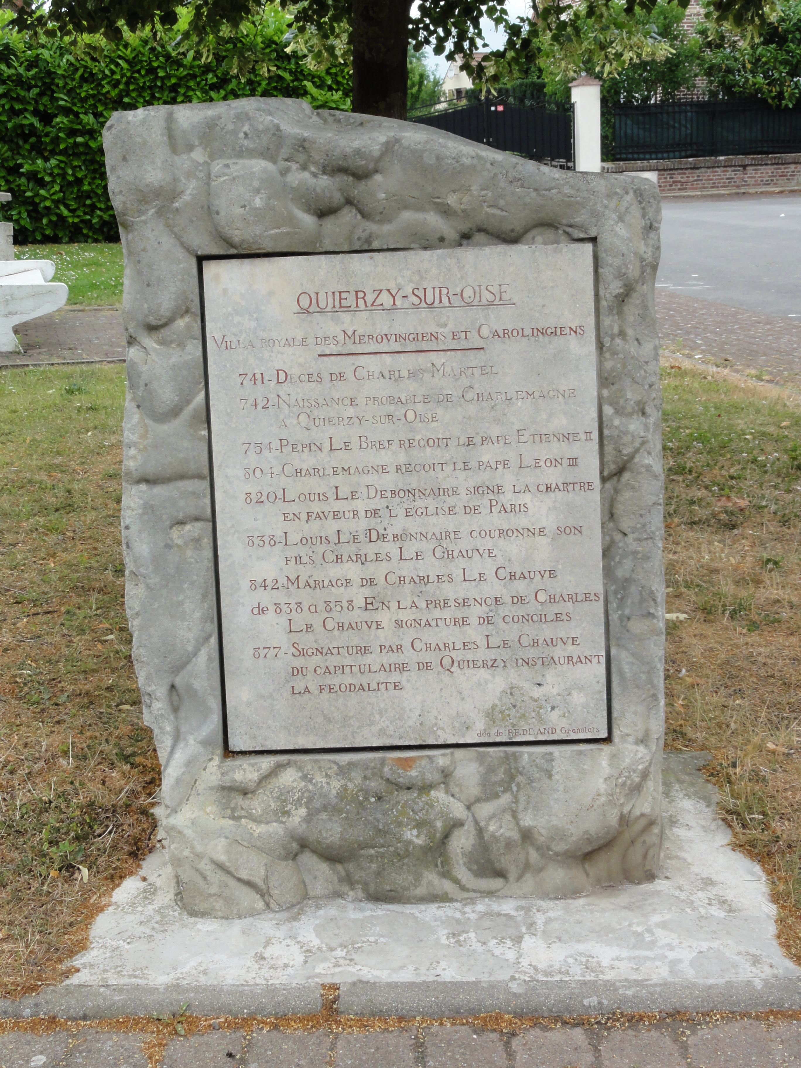 Quierzy (Aisne) stèle Mérovingiens-Carolingiens